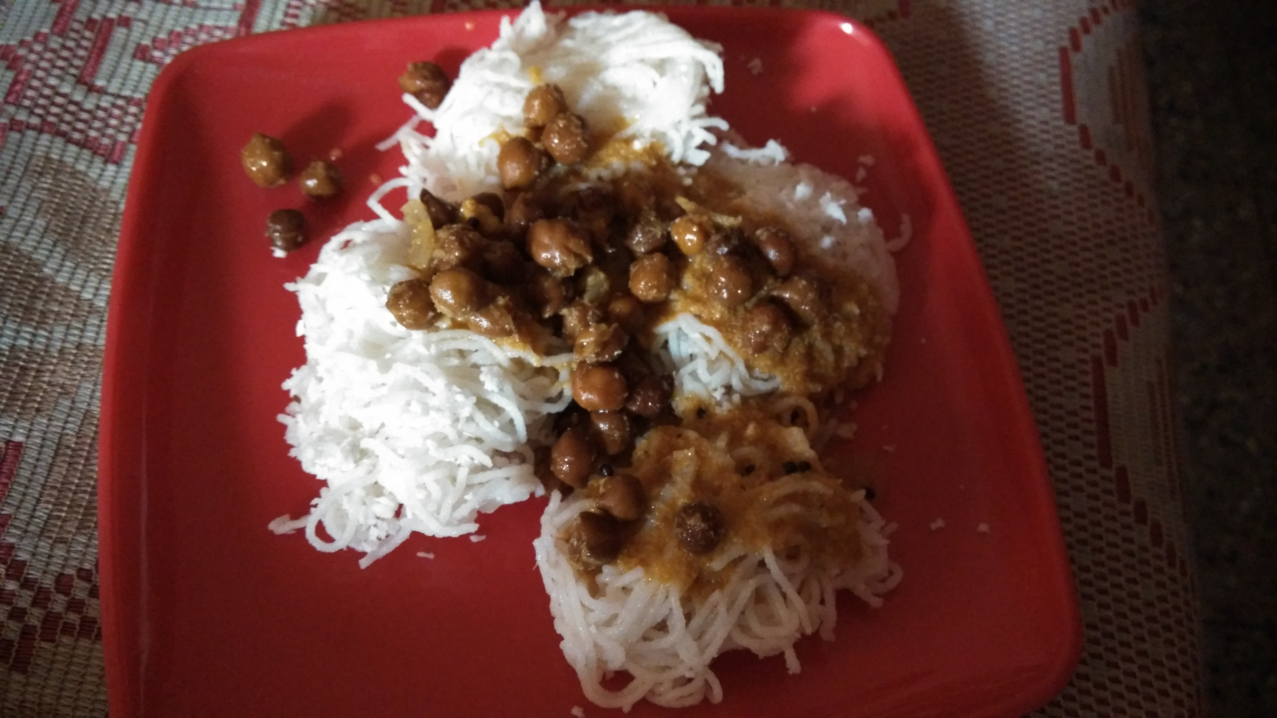 This consists of rice flour pressed into noodle form and then steamed Usually served with Kadala(Chick pea), egg, fish or meat curry Served mainly as breakfast and sometimes as a evening snack